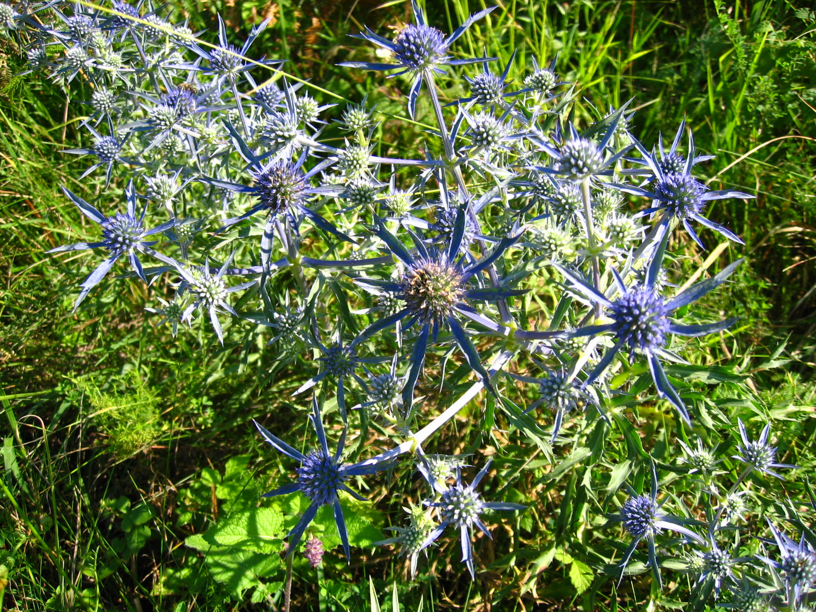 Eryngium amethystinum, picture taken in central Croatia near Slunj